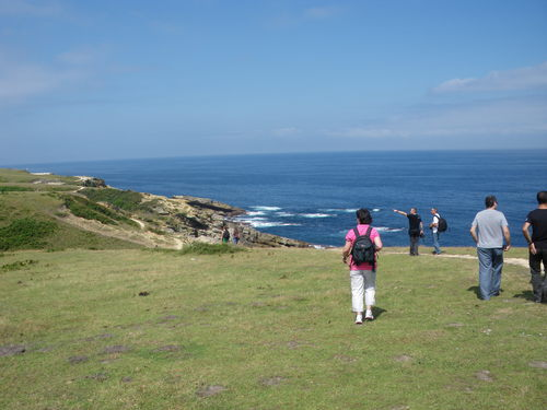 Talaia trail in Jaizkibel